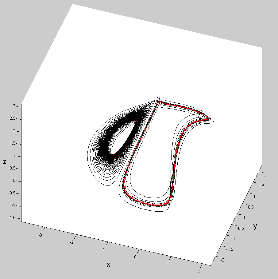 3D parametric plot of the solution of the Rabinovich-Fabrikant equations for gamma=0.1, alpha=0.14 parameters, when stable limitcycle exists (red curve).